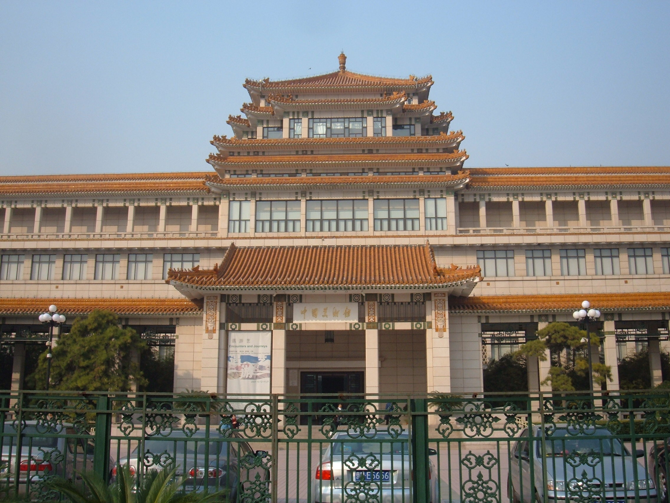 The National Art Museum of China in Beijing, PRC.